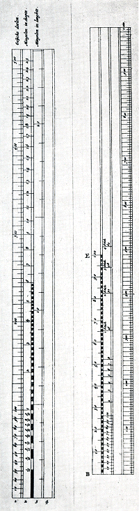 Ill. 51. Division as is found on the winegauging rods, left: quadratic-rod; right: cubic-root rod. - From: C. van Leeuwen, Schoolboek der wijnroeyeryen. p. 4. 1663. - ‘L. as surveyor and wine-gauger’, p. 363-365.